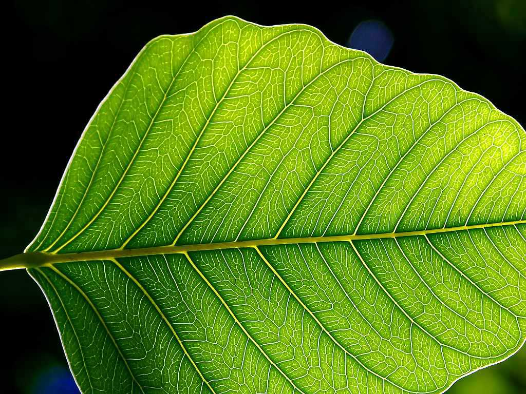 A leaf